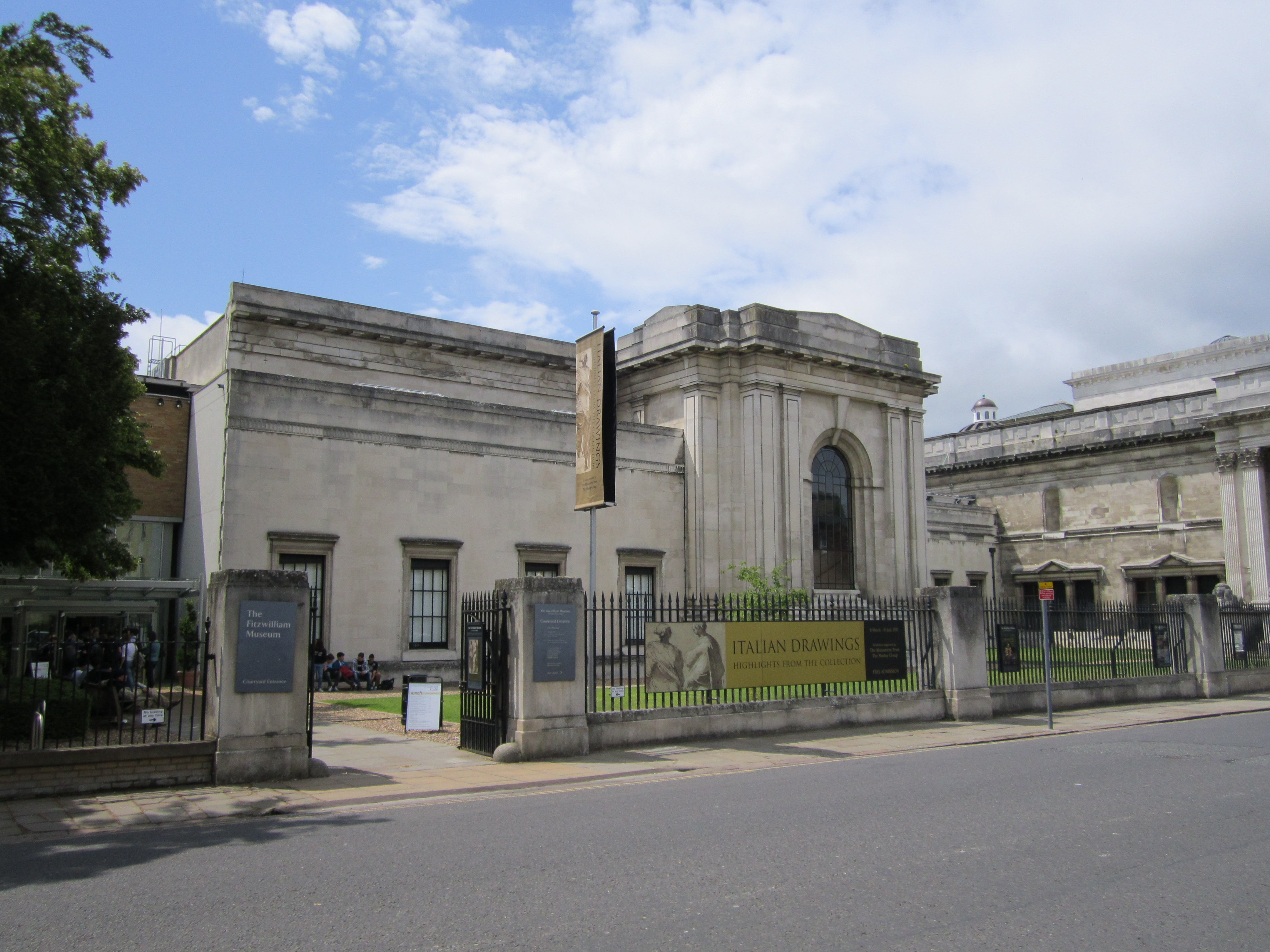 The Fitzwilliam Museum, Cambridge, England.